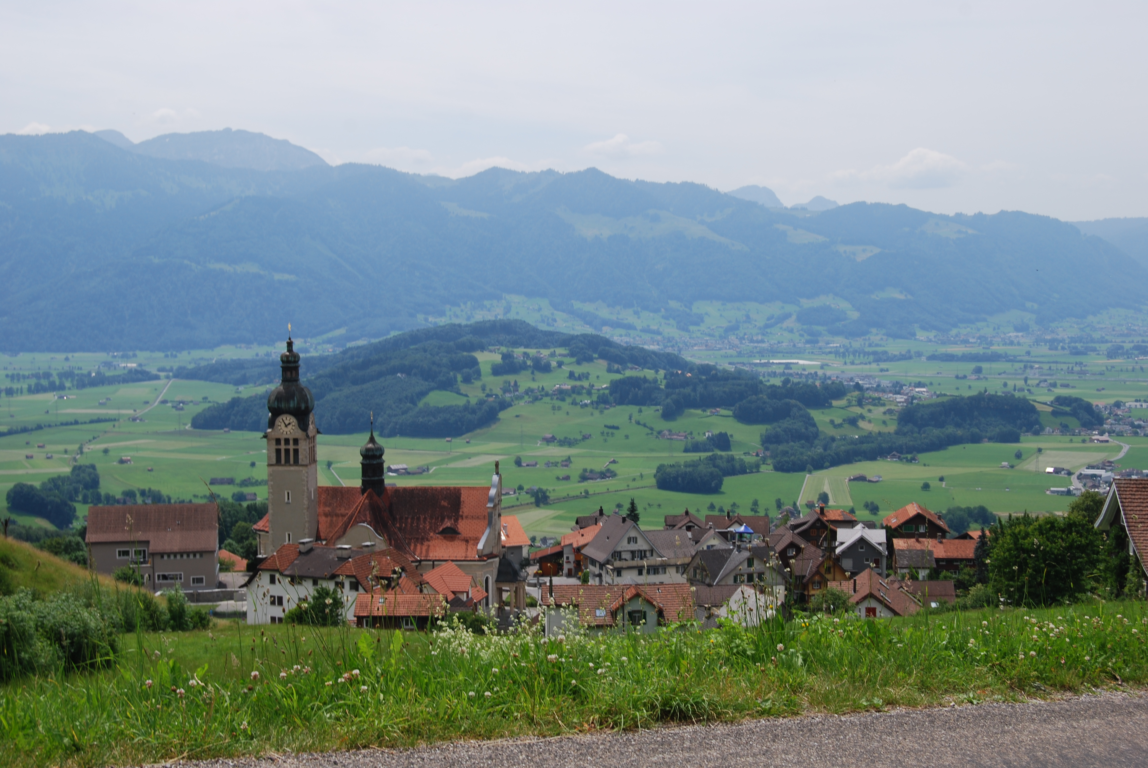 Rieden, canton of St. Gallen, SwitzerlandEsperanto: Rieden, Kantono Sankt-Galo, Svislando